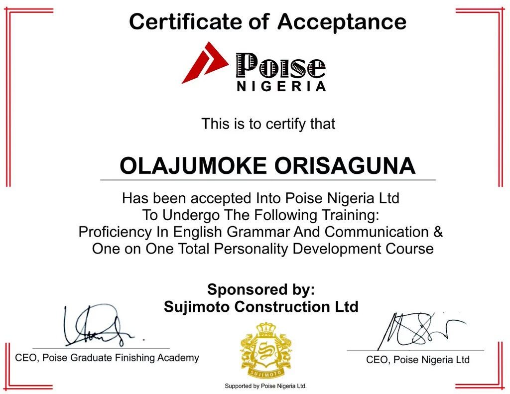 Olajumoke was granted a certificate to attend 'Total Personality Development' training at Poise Nigeria in February 2016. Her training will take about a year